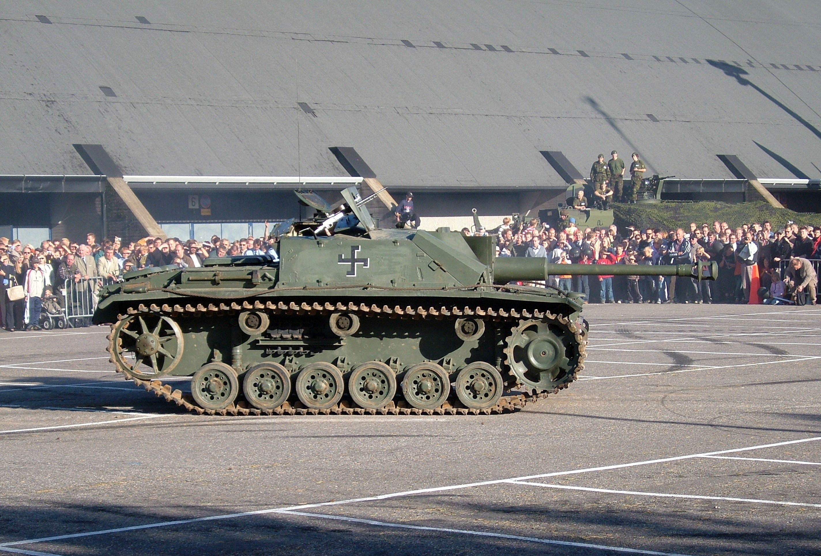 Finnish army Sturmgeschütz III Ausführung G. in front of Tampere Exhibition and Sports Centre on 10th of September 2005.